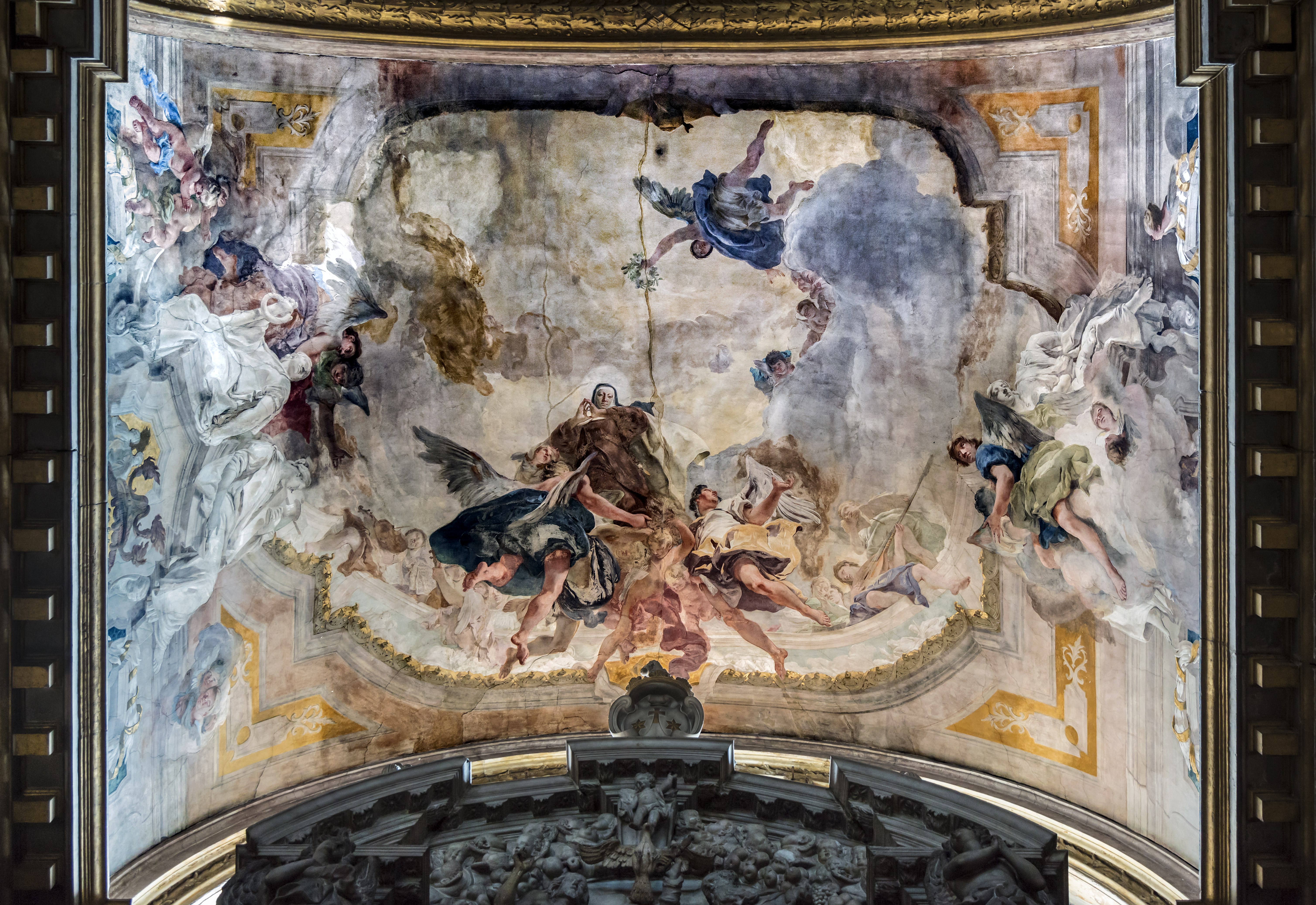 Church Santa Maria degli Scalzi Venice. Chapel Ruzzini - The Apotheosis of St. Theresa by Giambattista Tiepolo, fresco (1722-24).